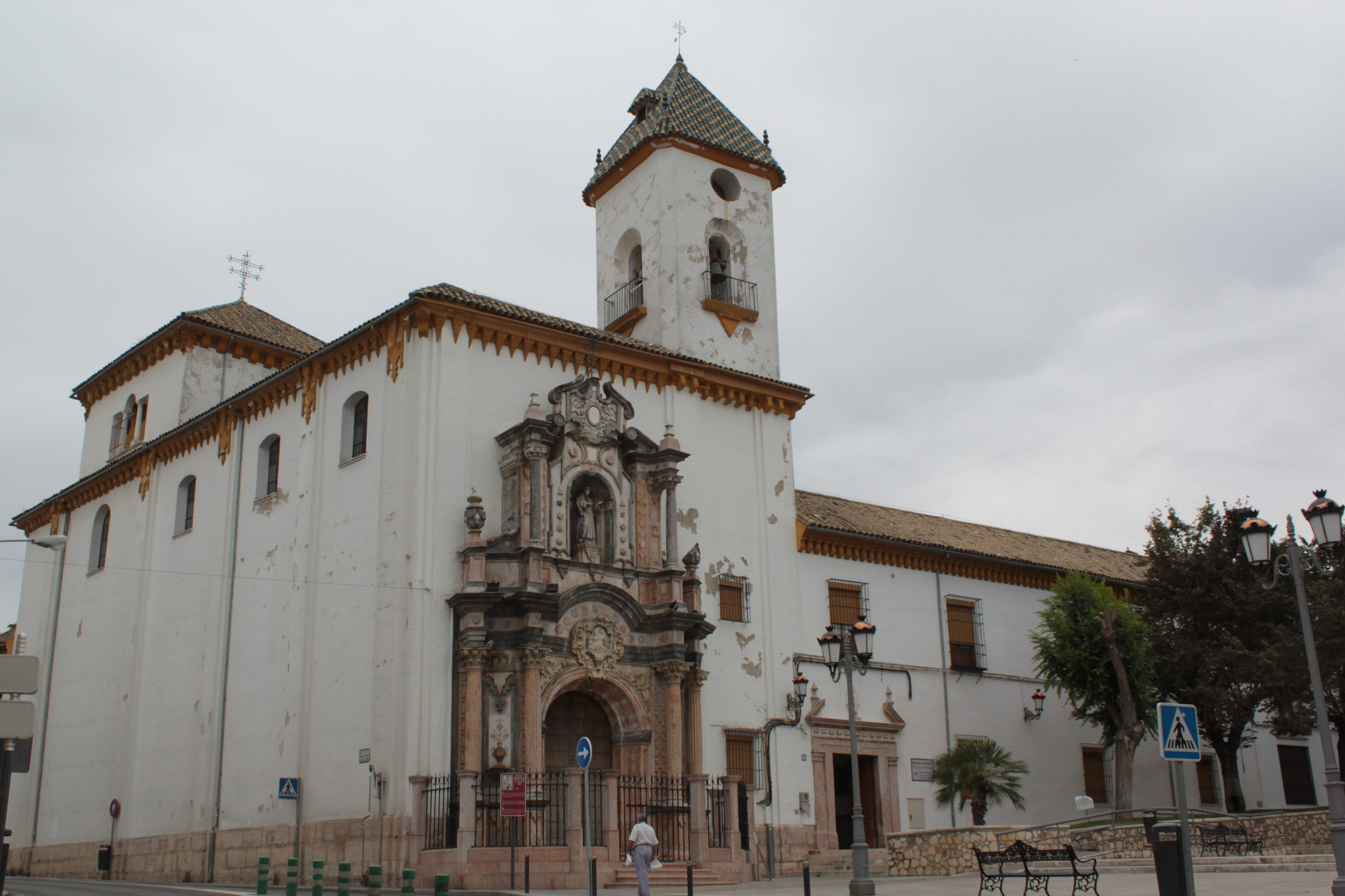 Saint John of God Hospital. Lucena (Spain).